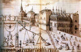 Royal Alcazar of Madrid, 1596–1597